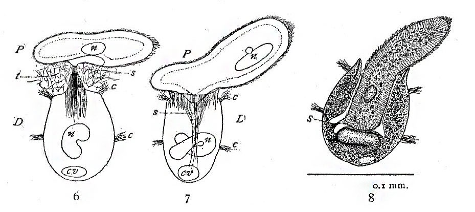 An illustration from S.O. Mast, 1909, showing Didinium nasutum consuming a paramecium.